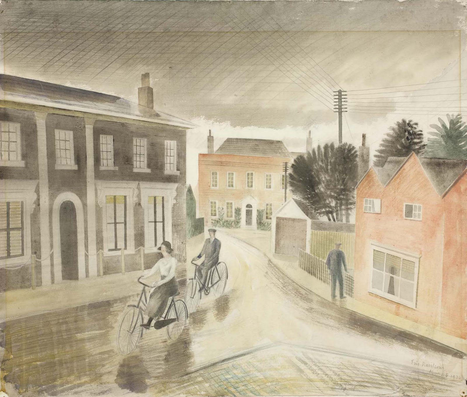 Castle Hedingham, Essex. Now in the Towner Art Gallery, Eastbourne, England